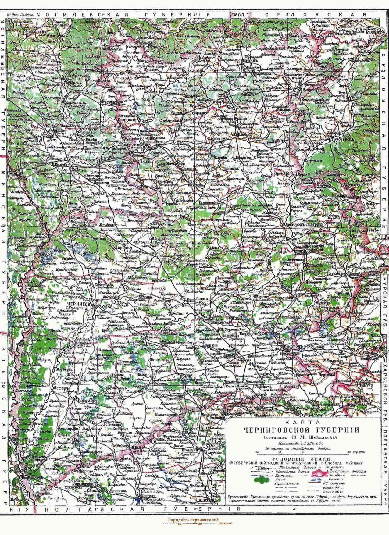 Map of Chernihov Governorate (Russian Empire)